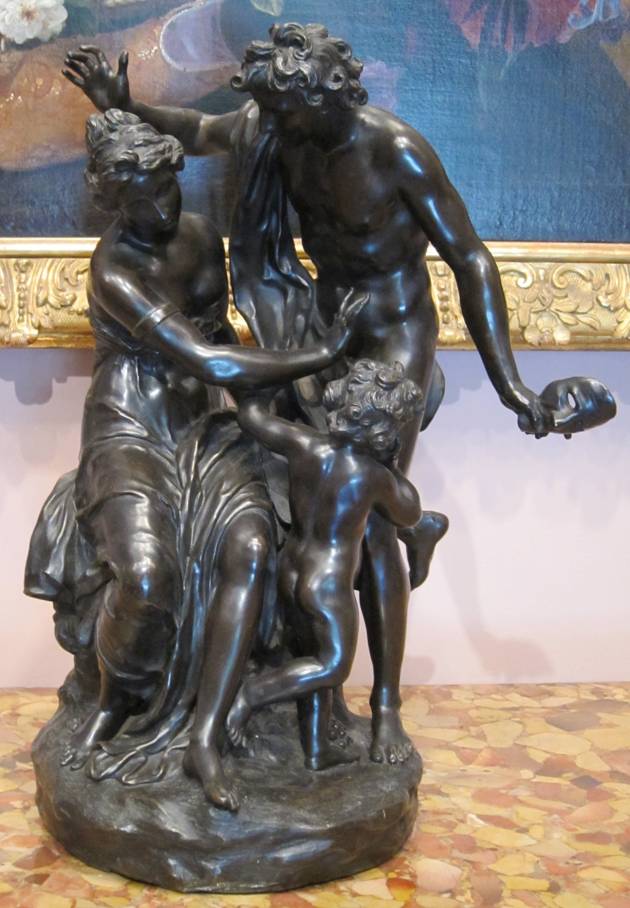 Robert Le Lorrain France, 1666–1748 Vertumnus and Pomona, ca. 1704 Bronze Honolulu Museum of Art Purchase, 1969 (3580.1)